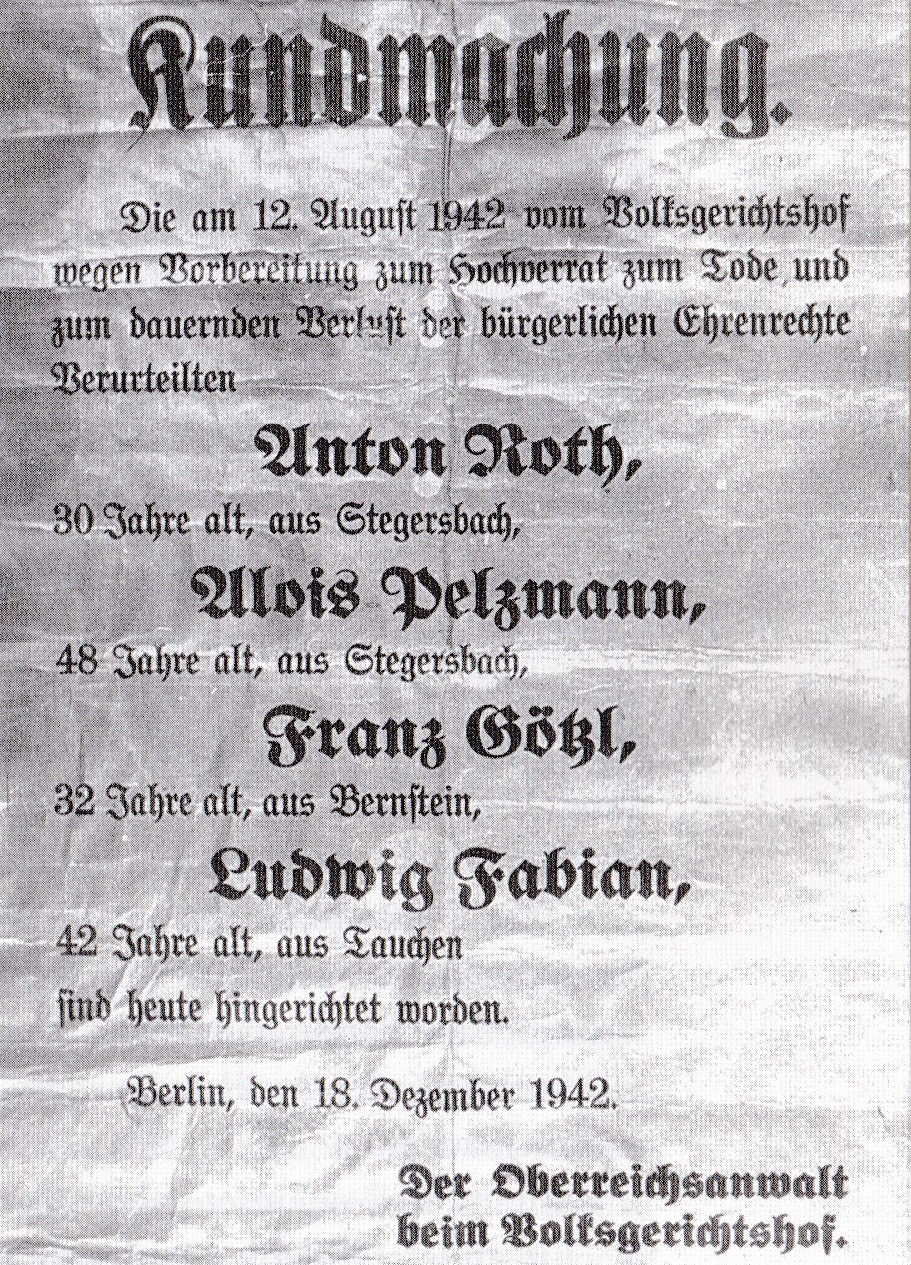 Death Penalty Announcement for Ludwig Fabian, Franz Glötzl, Alois Pelzmann and Anton Roth by the Oberreichsanwalt at the Volksgerichtshof